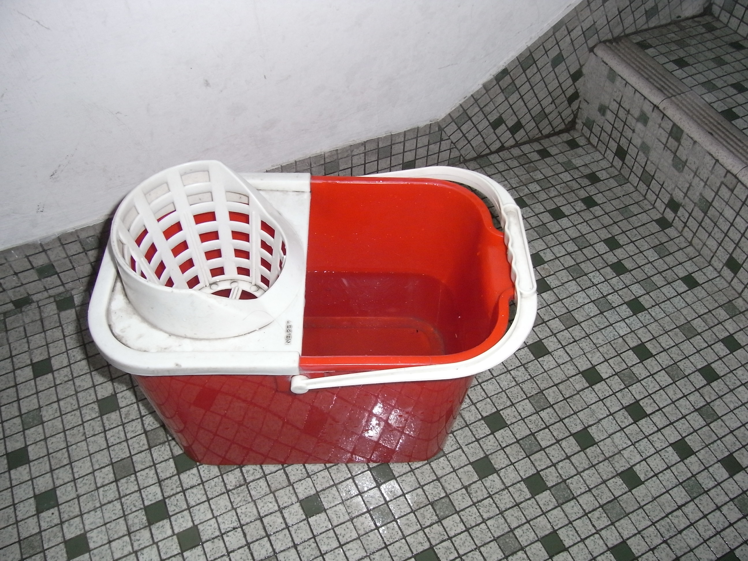 膠桶 plastic bucket in red